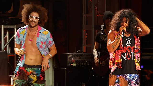 LMFAO Live on Walmart Soundcheck in 2011.